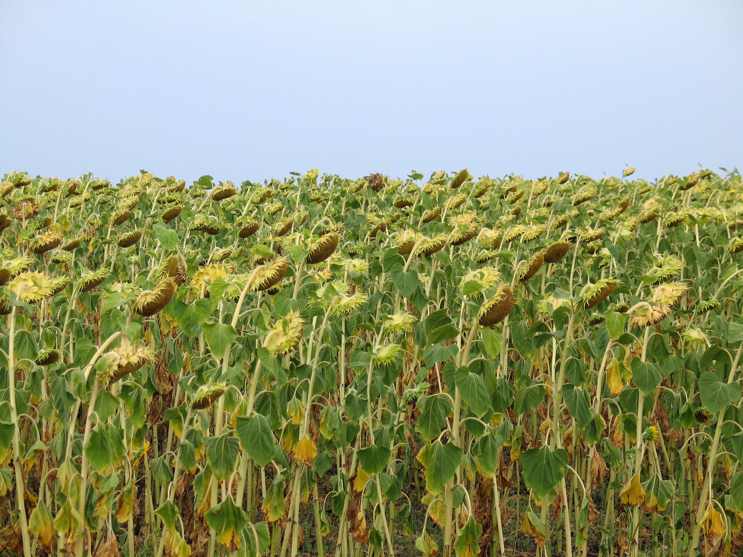 Sunflowers in Belgorod region.